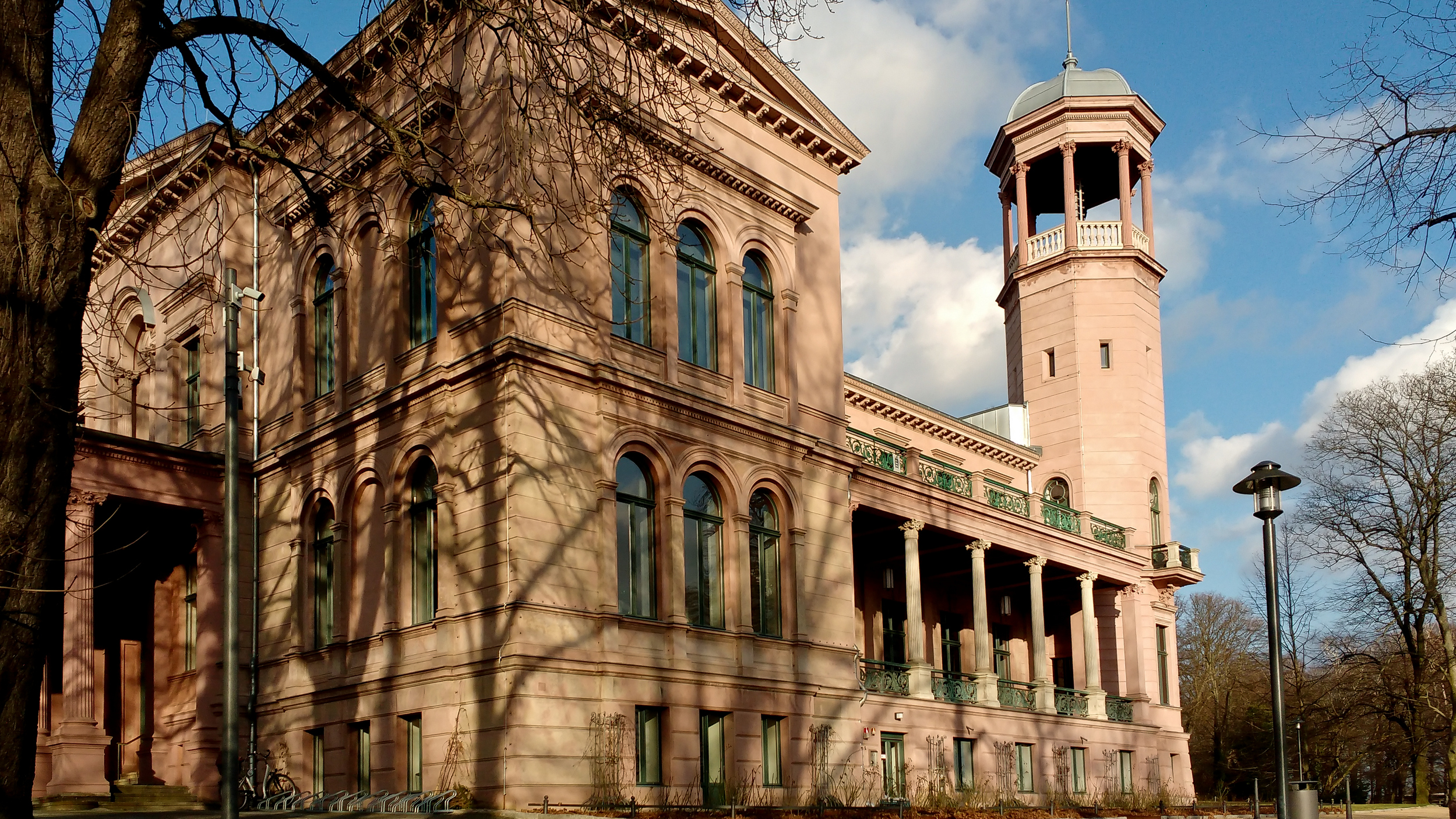 Biesdorf Palace